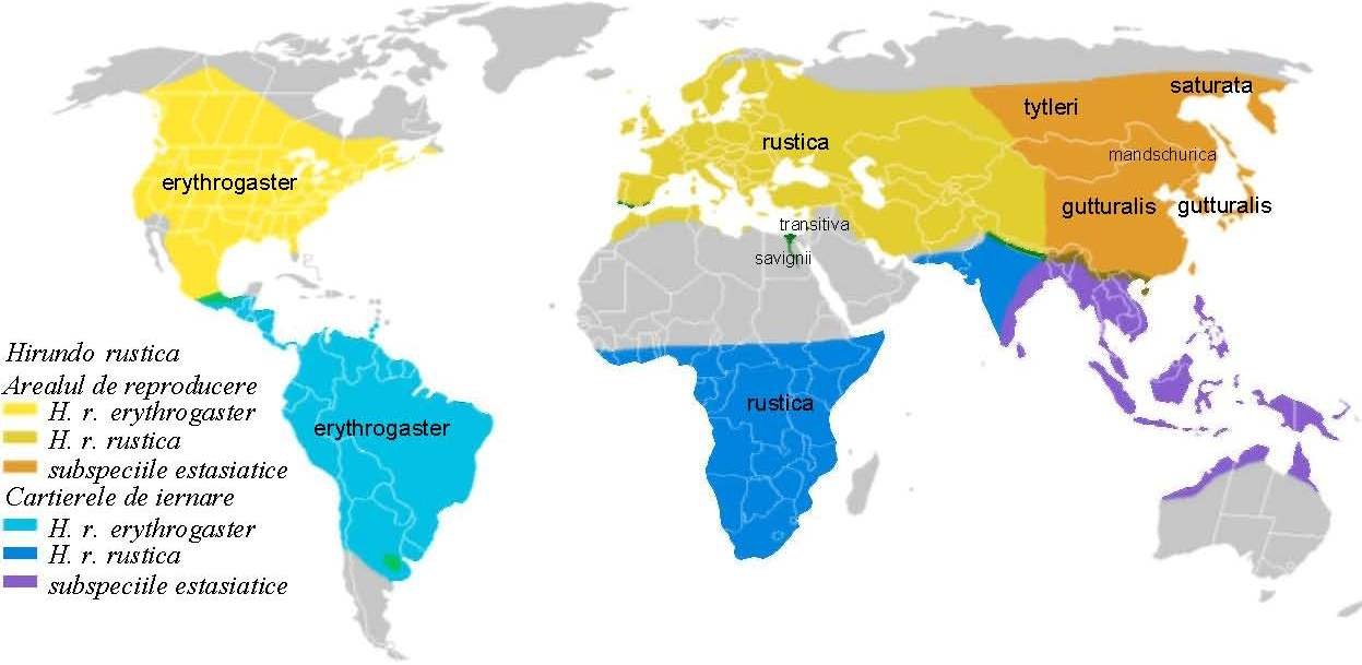 Hirundo rustica subspecies